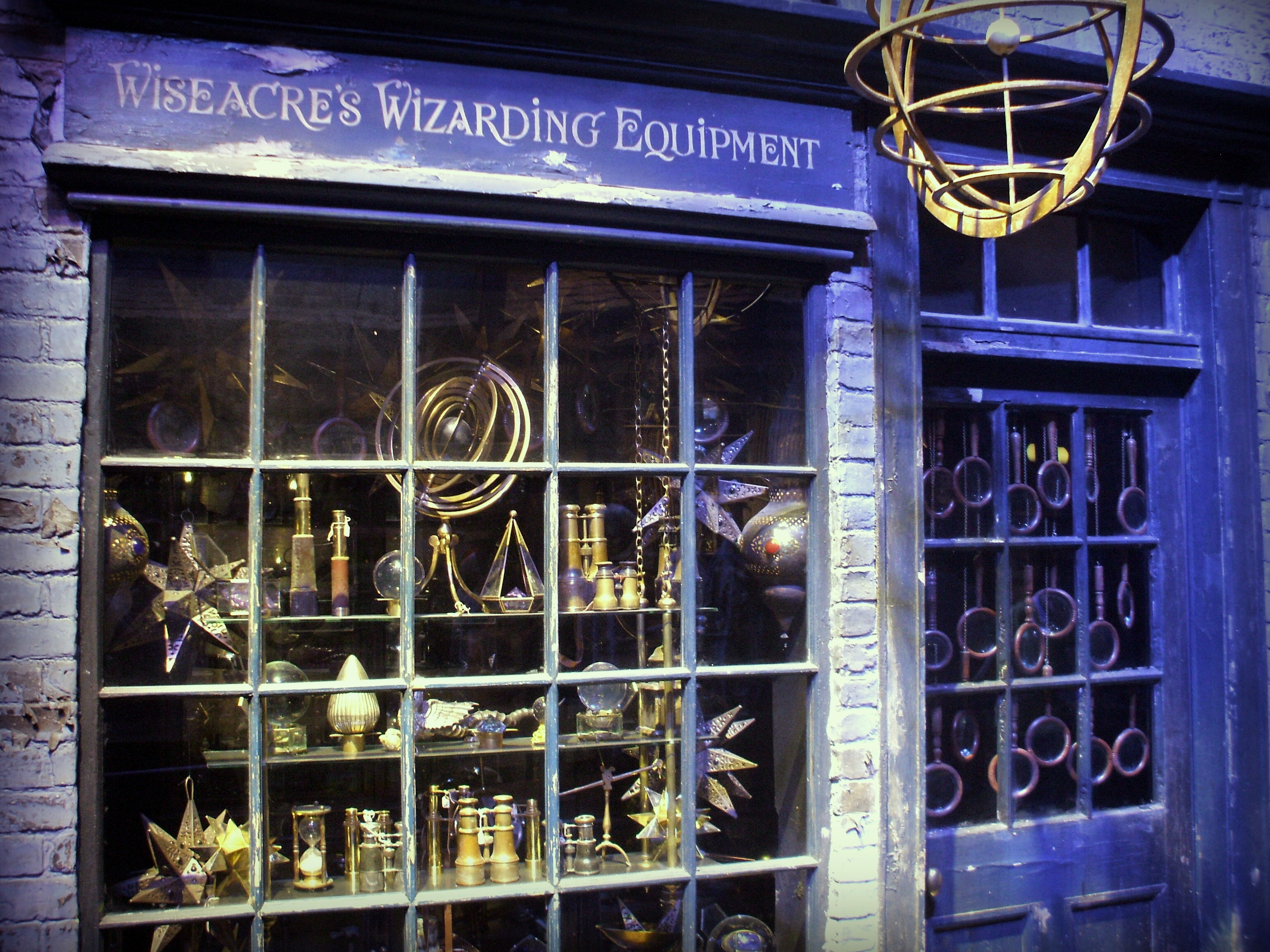 Wiseacre's Wizarding Equipment, Diagon Alley. Harry Potter film set at Warner Bros. Studios, Leavesden, UK